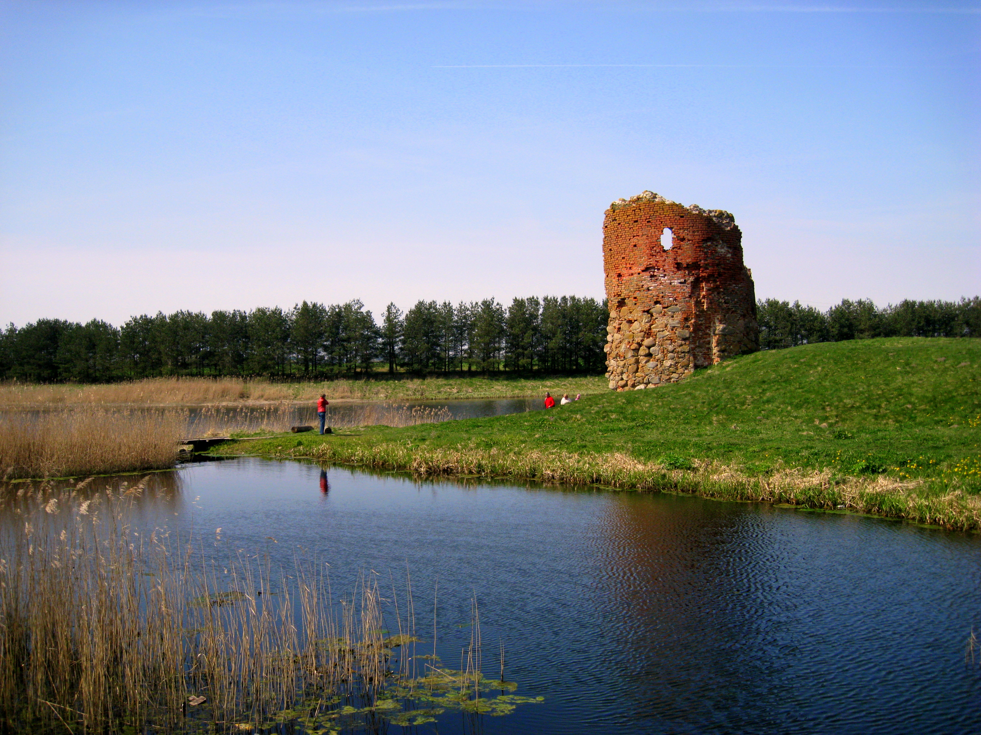 Piltene Castle ruinsLatviešu: Piltenes pilsdrupas